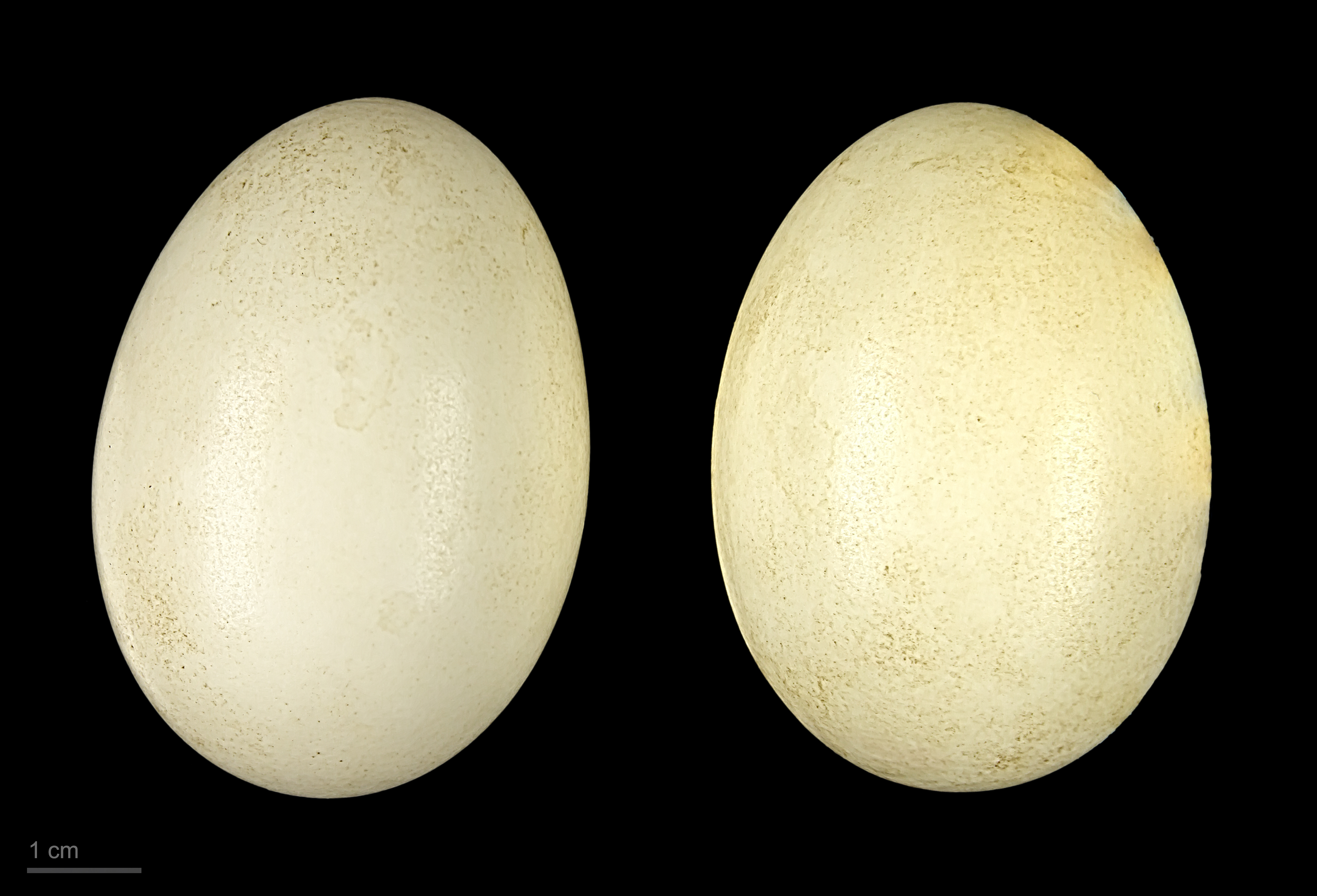 Eggs of Chiloé wigeon Two specimens of the same spawn ; collection of Jacques Perrin de Brichambaut.